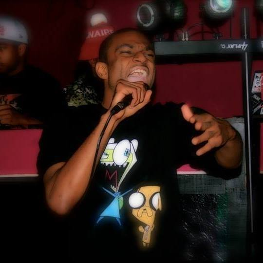 HERO Performing at thrill lounge in Huntsville, AL